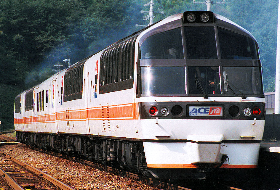 JR Hokkaido KiHa 80 series "Tomamu & Sahoro Express" DMU operating as "JTB Panorama Express"